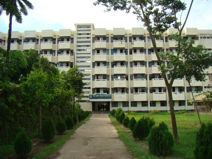 Kabi Kazi Nazrul Islam Hall, SAU